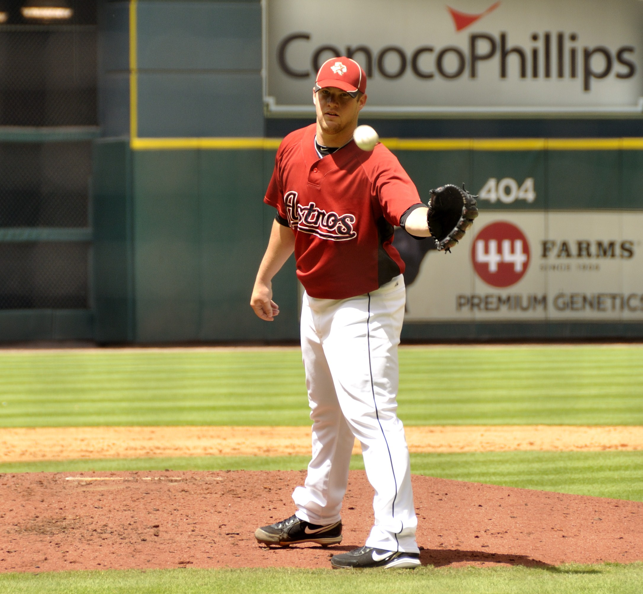 Bud Norris